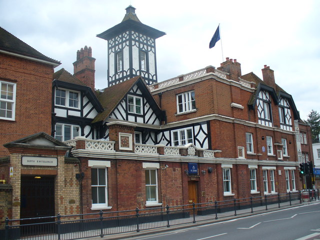 St James Independent School Striking building with mock Tudor architecture on Cross Deep, Twickenham. Cross Deep is also the name of the stretch of the Thames behind the school.